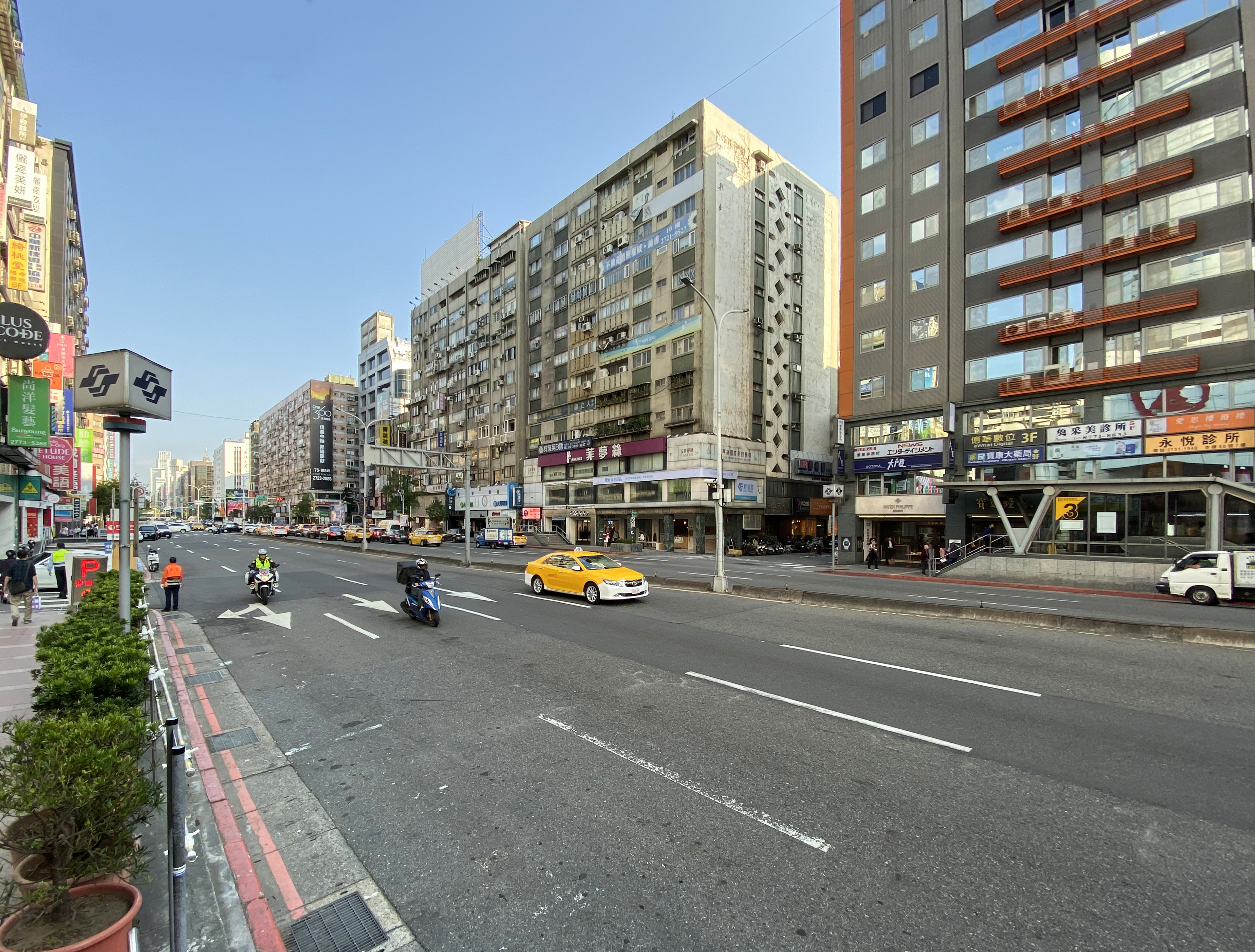 Zhongxiao East Road